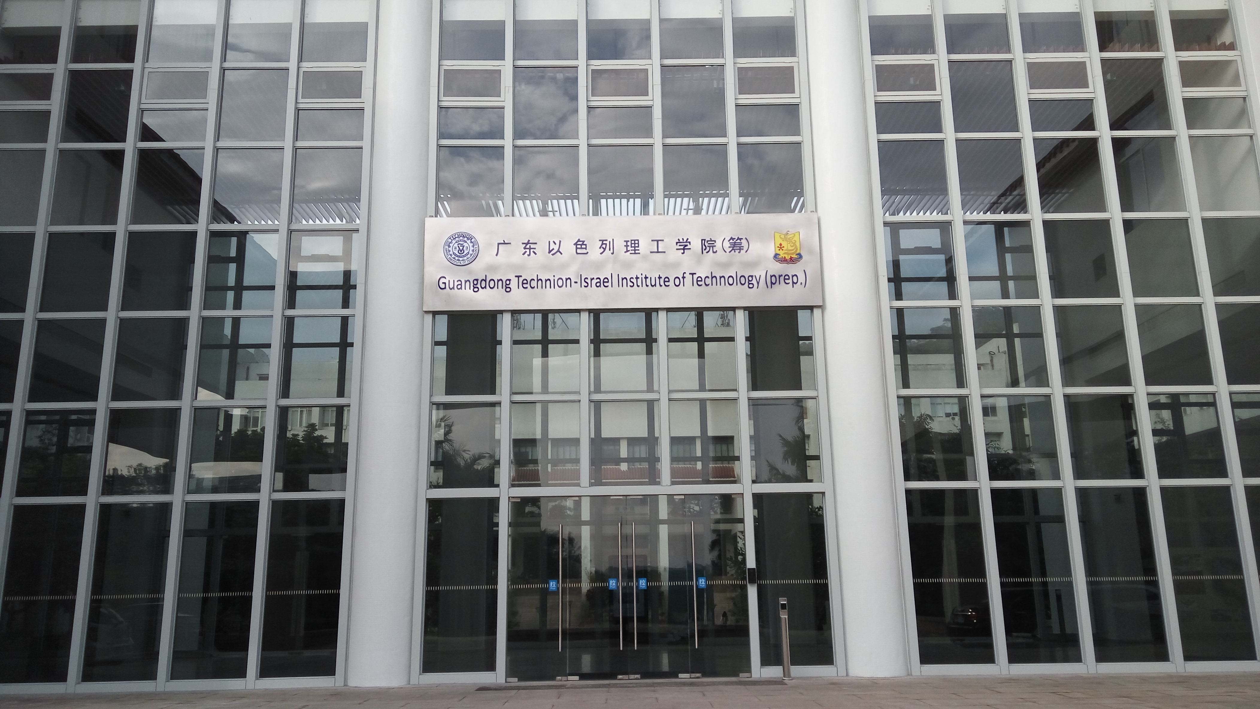 Transitional teaching building of Guangdong Technion-Israel Institute of Technology